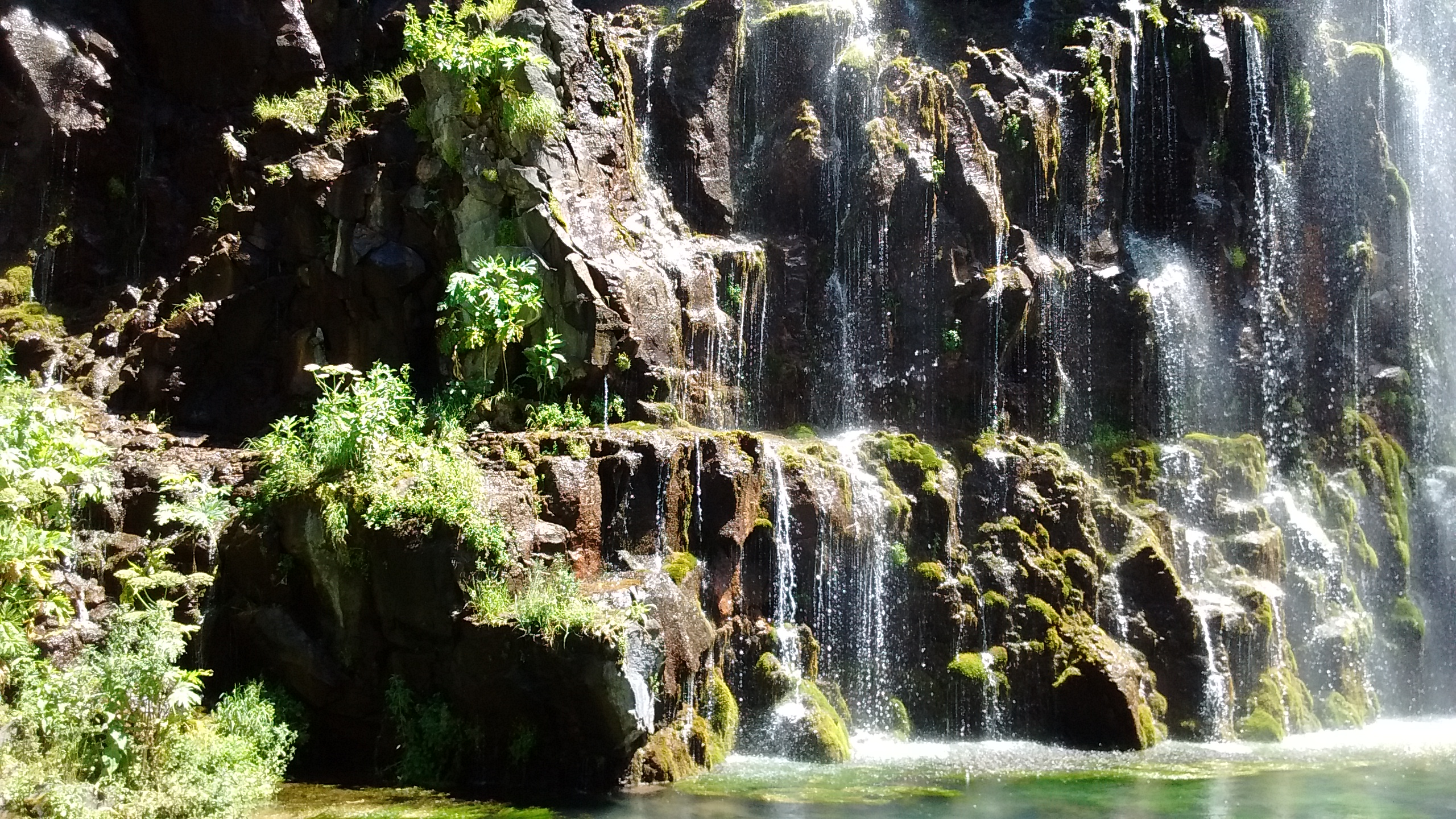 Dashbashi Waterfall, situated at the bottom of Dashbashi Canyon is of cascade type.